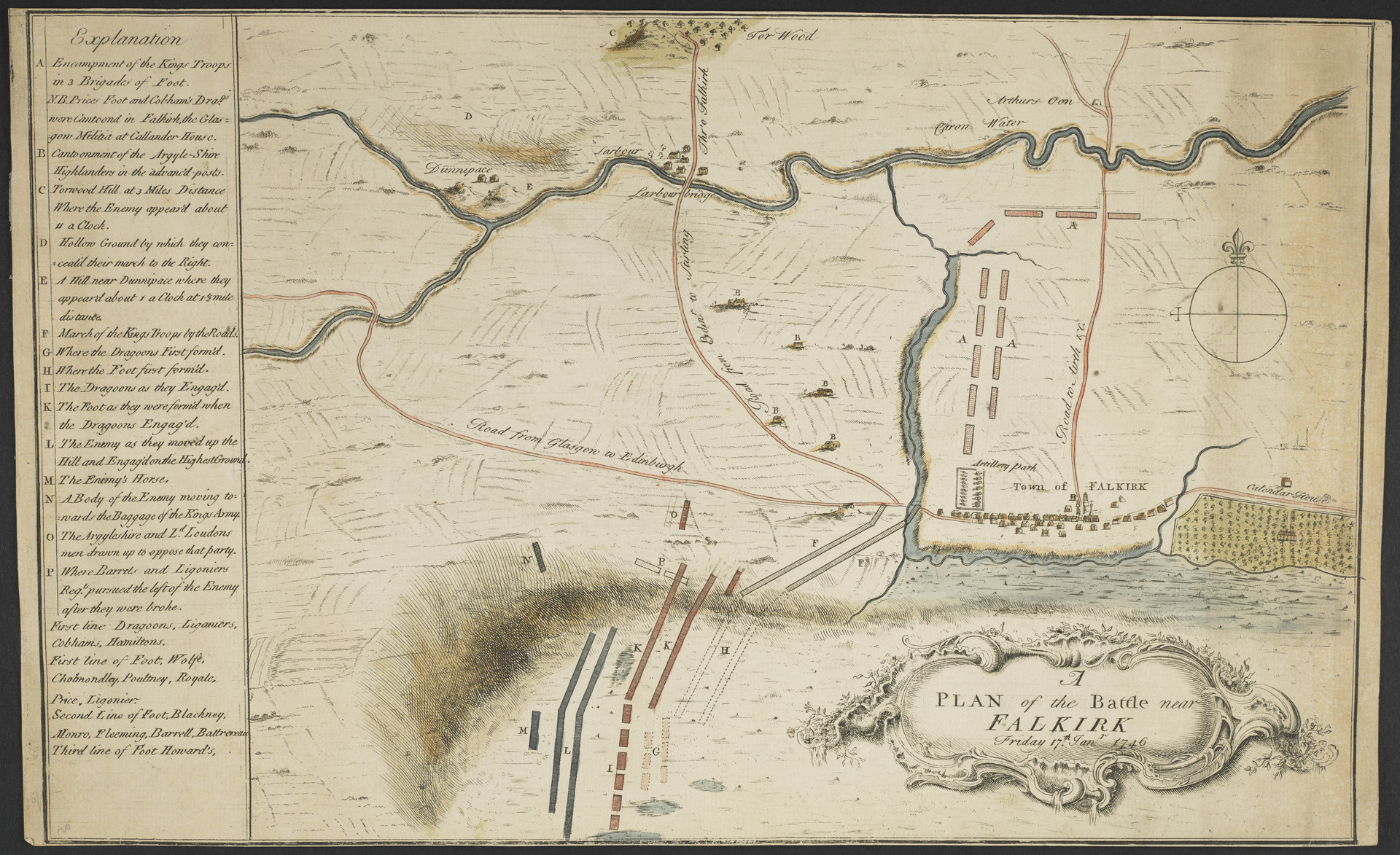 Plan of the Battle of Falkirk 17 January 1746 (Wikipedia use listed as fine when downloading)